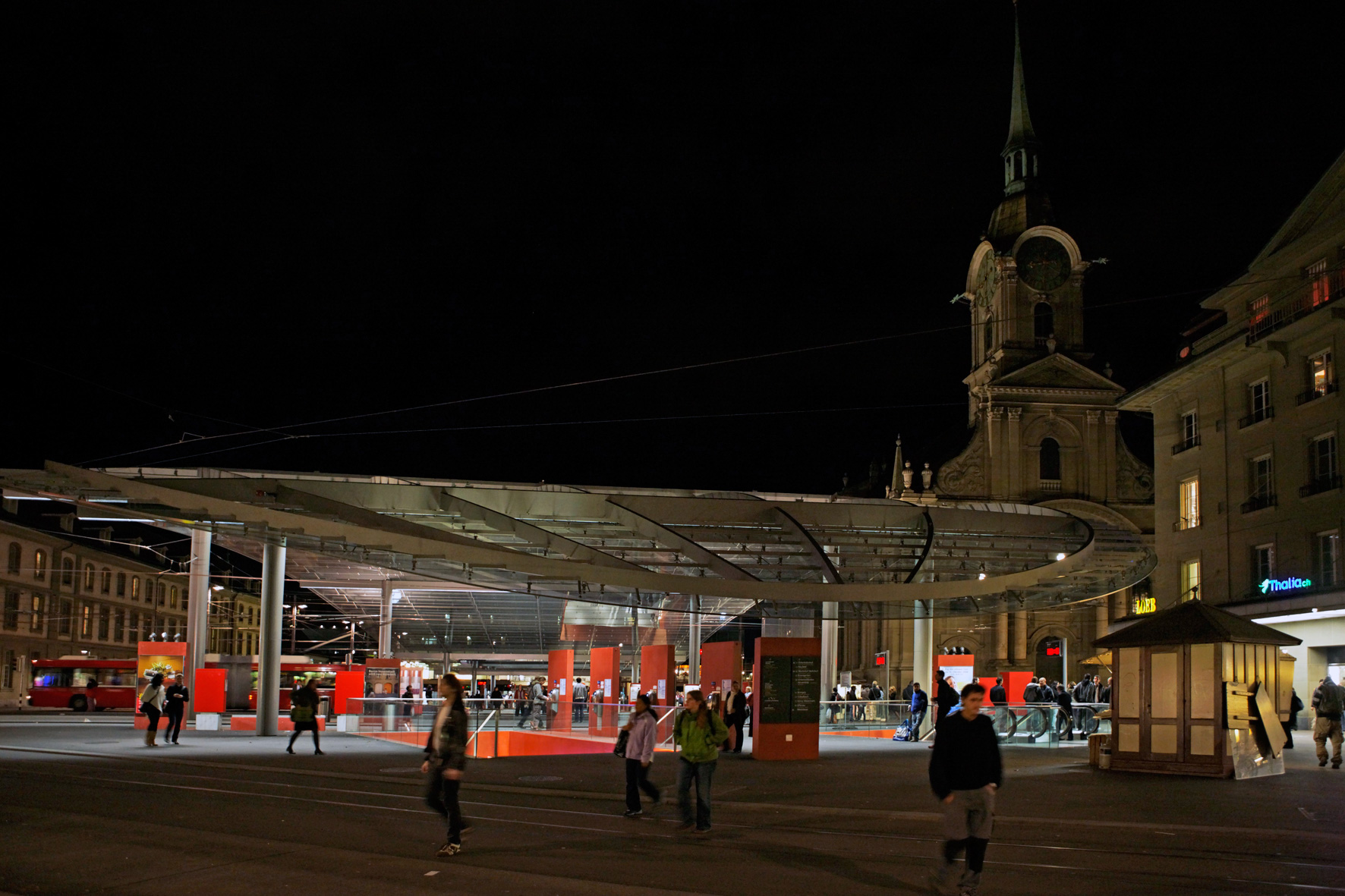 Bern, Stationplace and Heiliggeist church